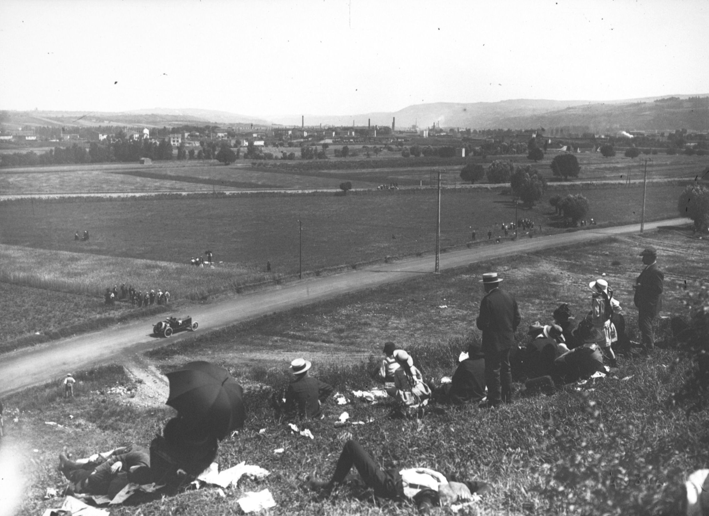 Dario Resta at the 1914 French Grand Prix